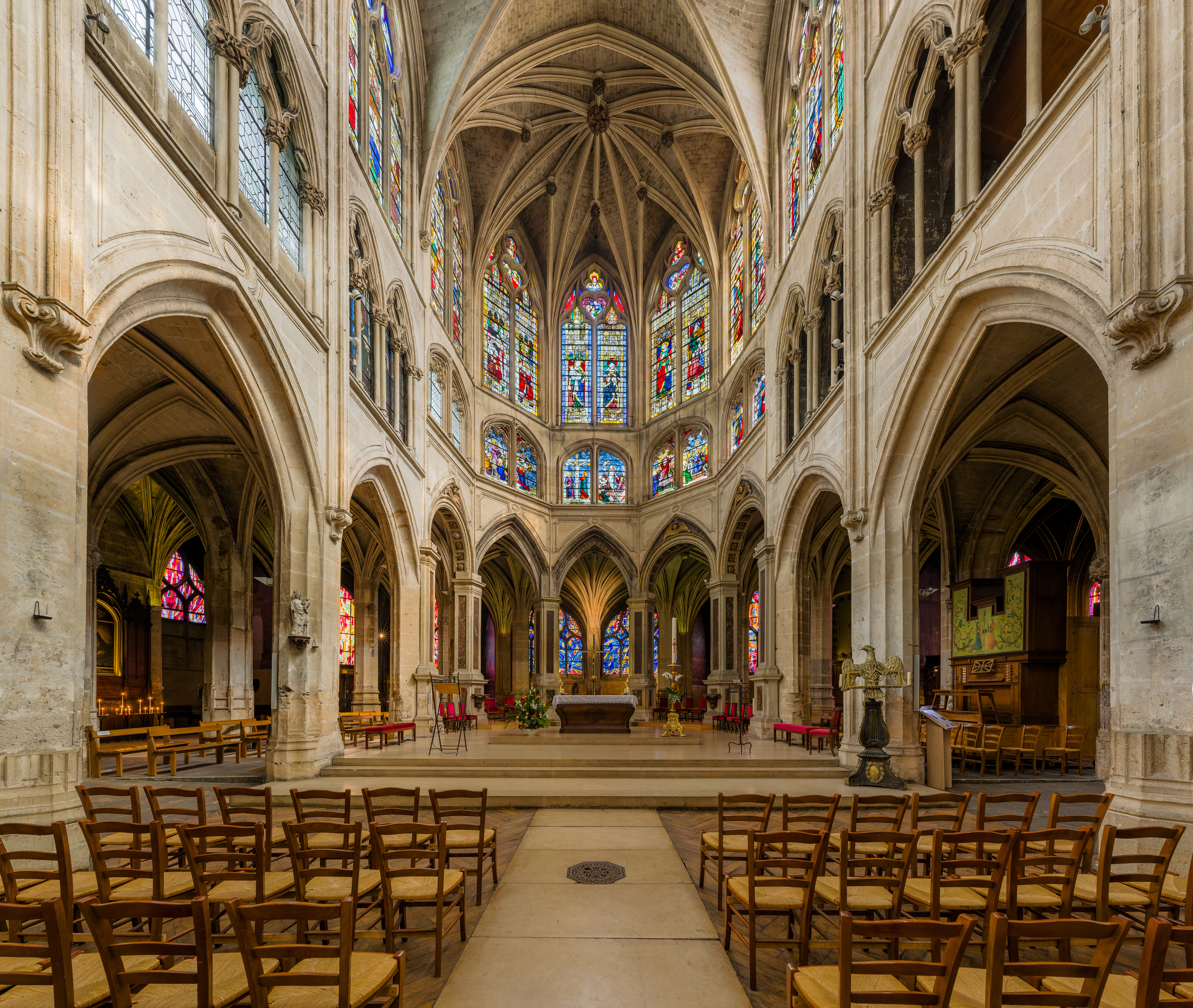 The altar and stained glass of Saint-Séverin, Paris, France.